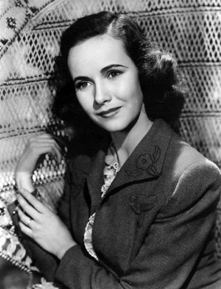 MGM publicity portrait of Teresa Wright for the film Mrs. Miniver (1942).